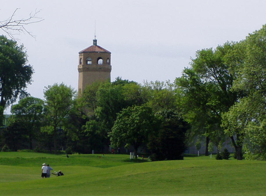 Old Highland Park watertower seen from across golf course